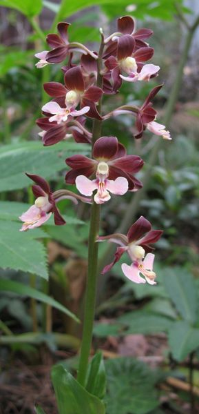 Image come from japanese Wikipedia page: Calanthe discolor, Orchidaceae エビネ Calanthe discolor 撮影者:利用者:sphl 撮影日:2006年4月19日 撮影地:東京都町田市